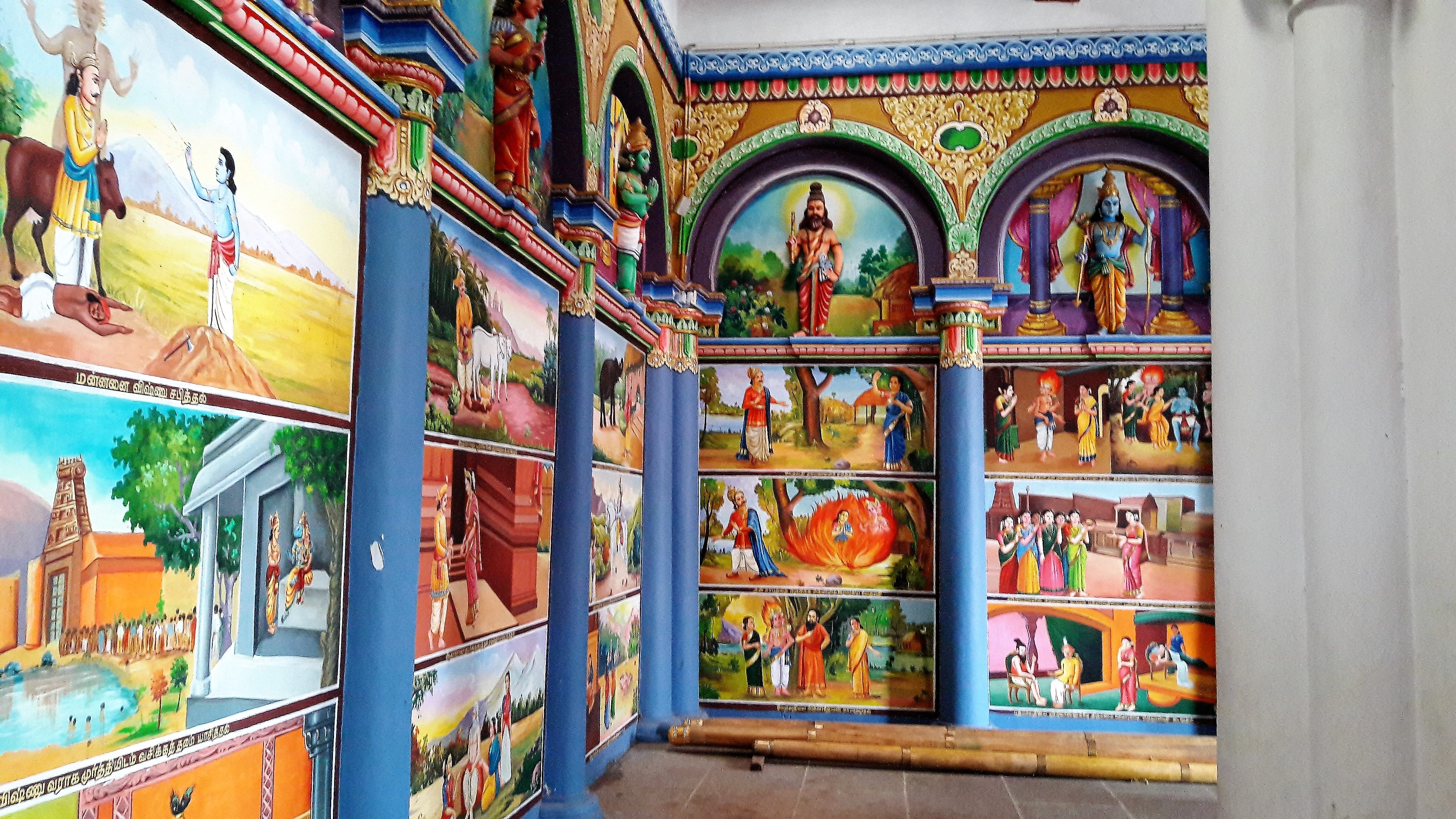 Varadaraja Perumal Temple, Pondicherry